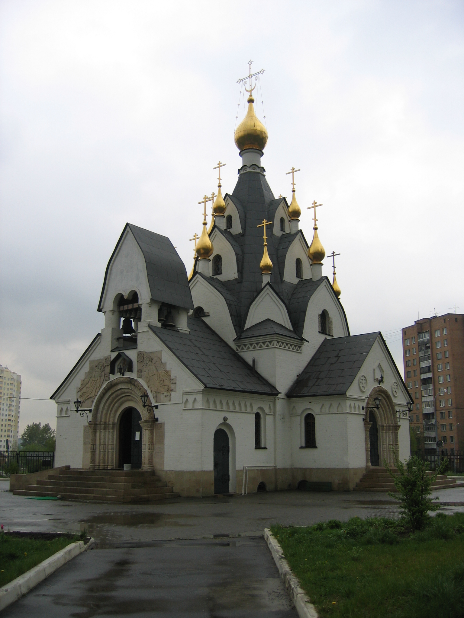 Memorial chapel for victims of the 1999 bombing, Moscow, ul. Guryanova